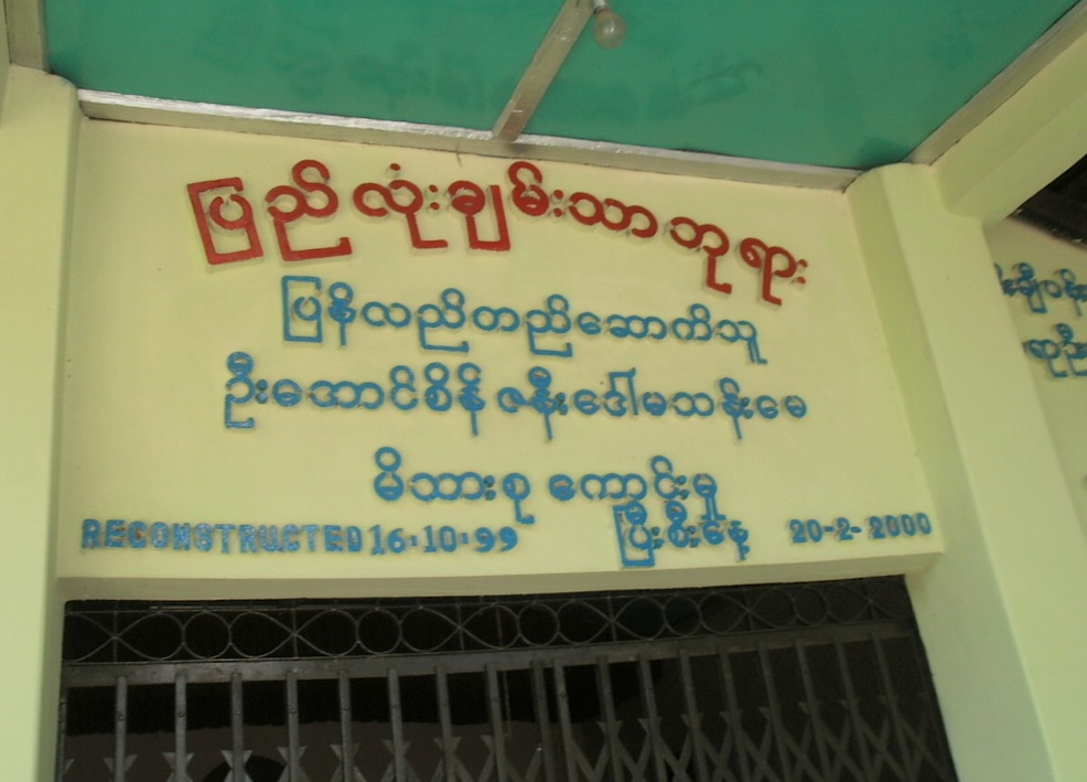 Photo of Rakhine writing on a Buddhist Pagoda